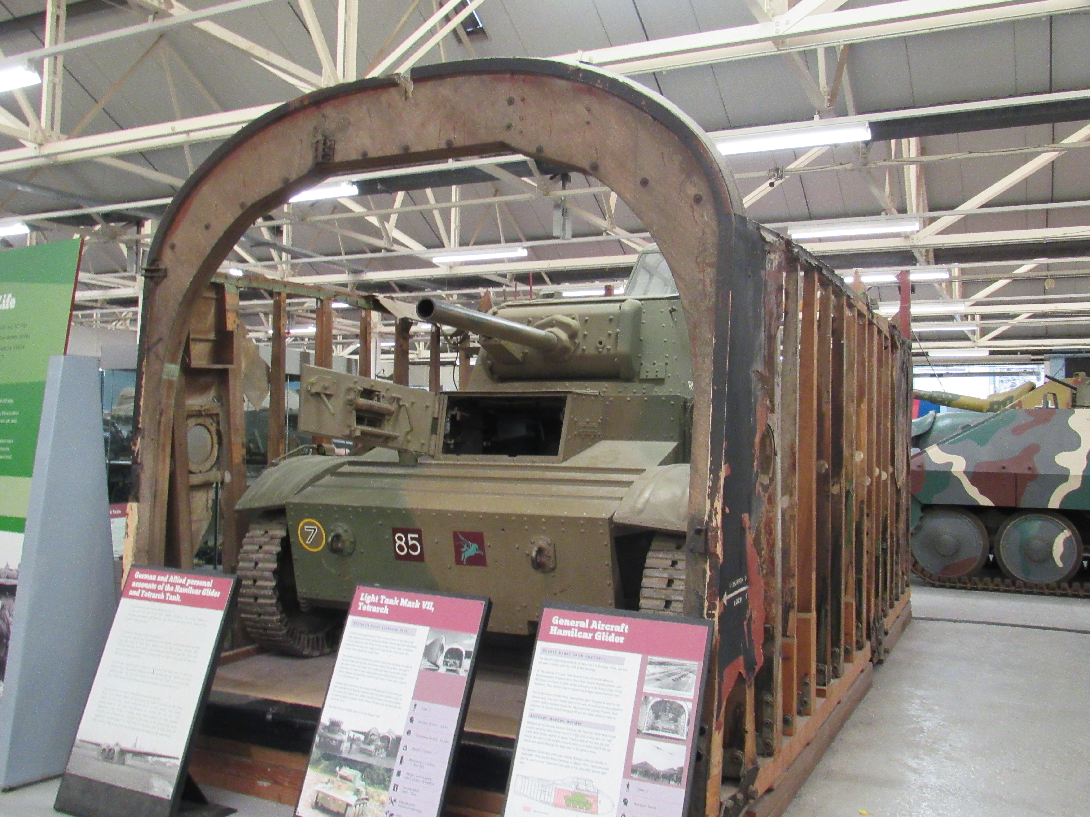 Taken in Bovington Tank Museum